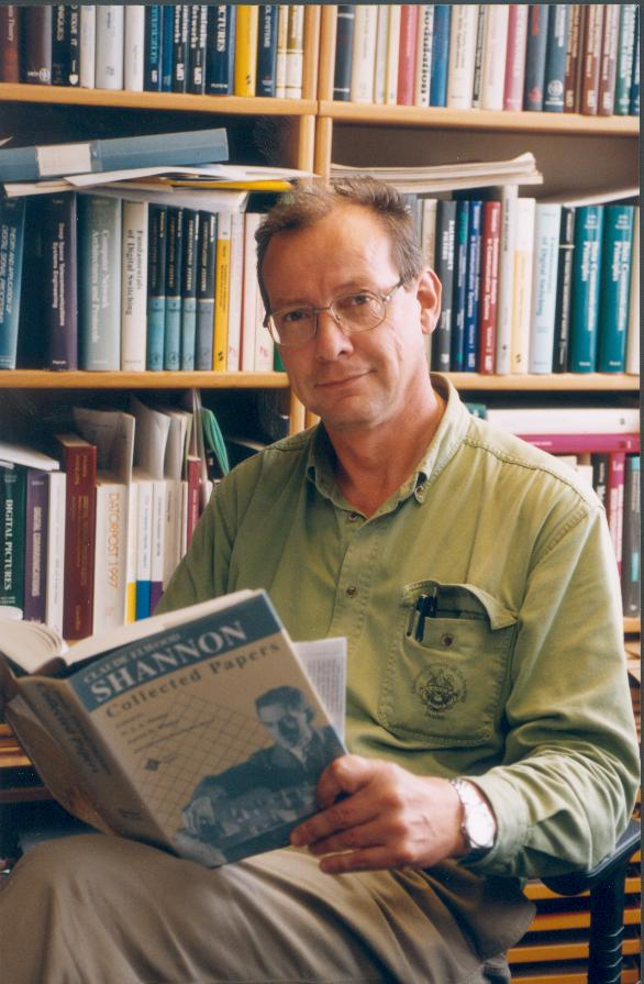 Tor M. Aulin in his office at CHALMERS, Gothenburg, Sweden.